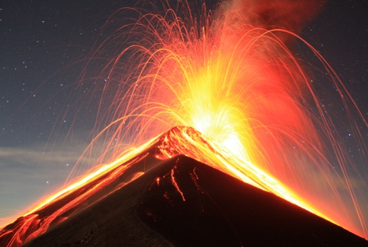 Fuego volcano in Guatemala erupts on a moonlit night. Taken from Fuego's north ridge, just after 3 am March 30, 2013.